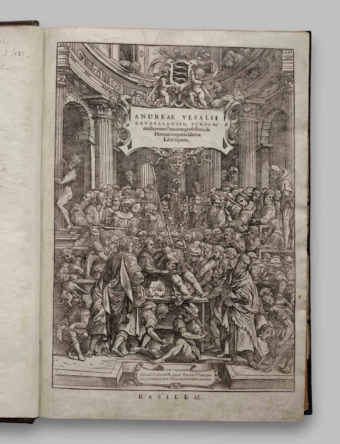 Title page from the "De humani corporis fabrica" printed by Johannes Oporinus in 1543. Copy of the Warnock library.